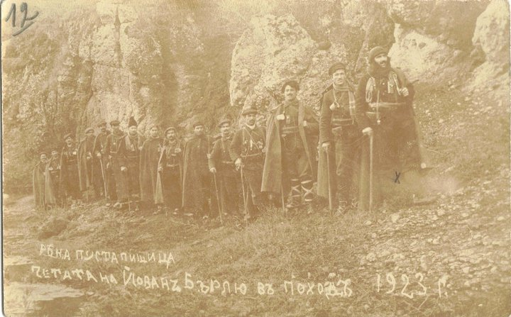 Cheta of bulgarian revolutionary Ivan Barlio from IMRO